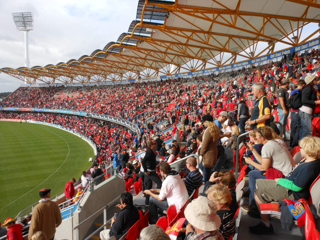 Crowd at Carrara Stadium.